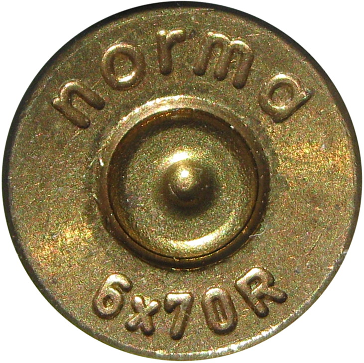 cartridge base 6 x 70 R Norma